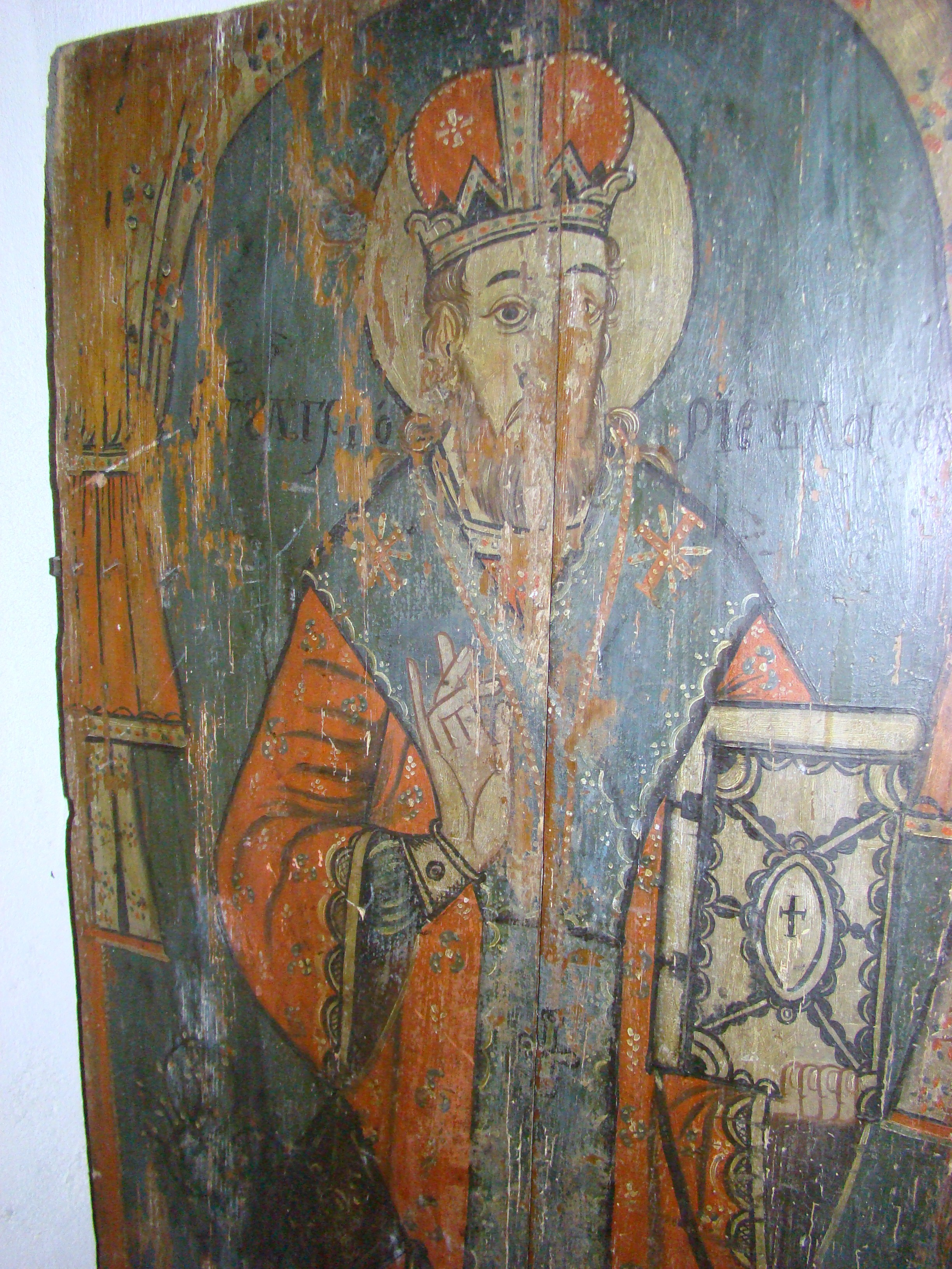 the Izbuc Orthodox monastery near Călugări village, Codru-Moma Mountains, Romania